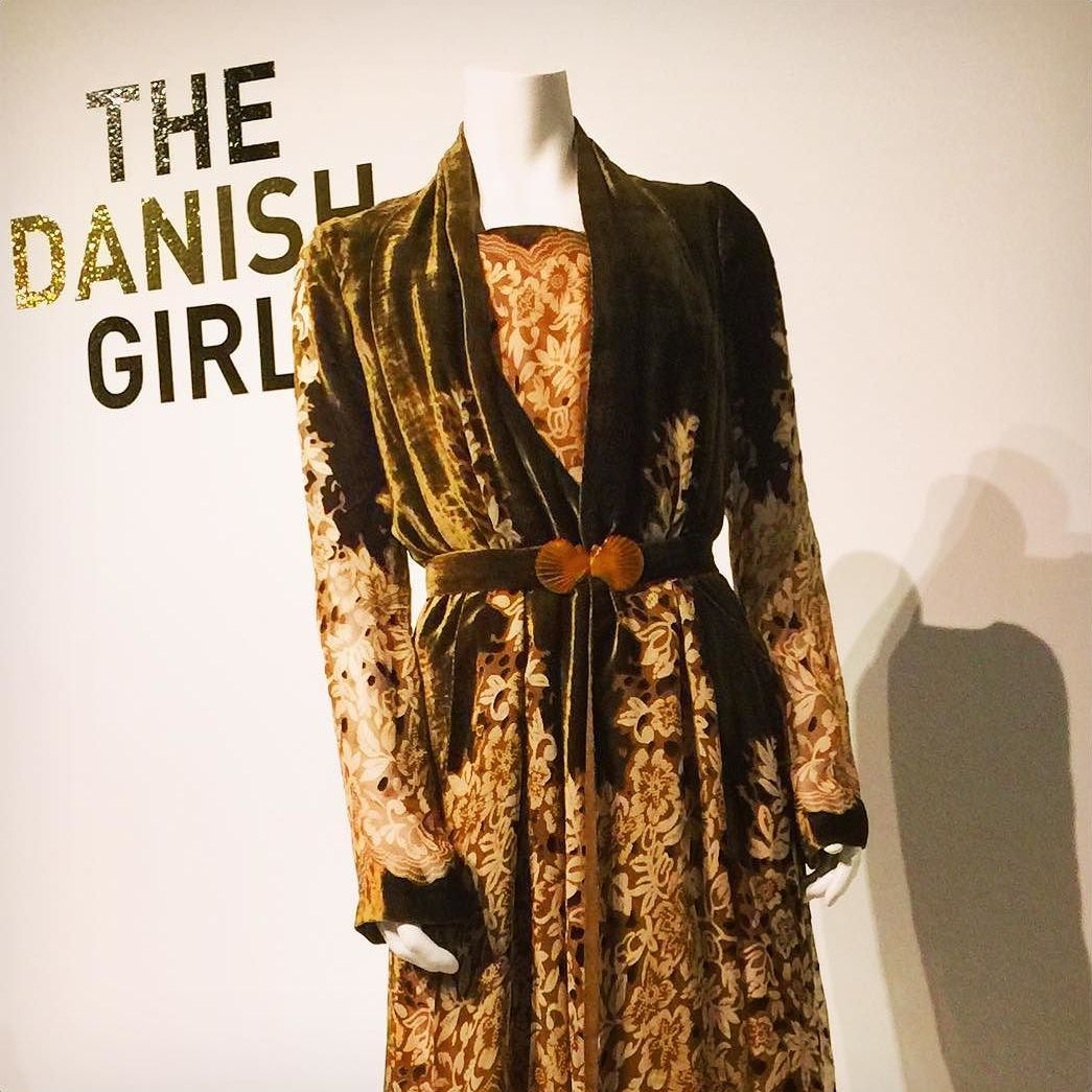 Costume from the film The Danish Girl displayed at the exhibition 24th Annual Art of Motion Picture Costume Design at FIDM Museum, Los Angeles, CA.